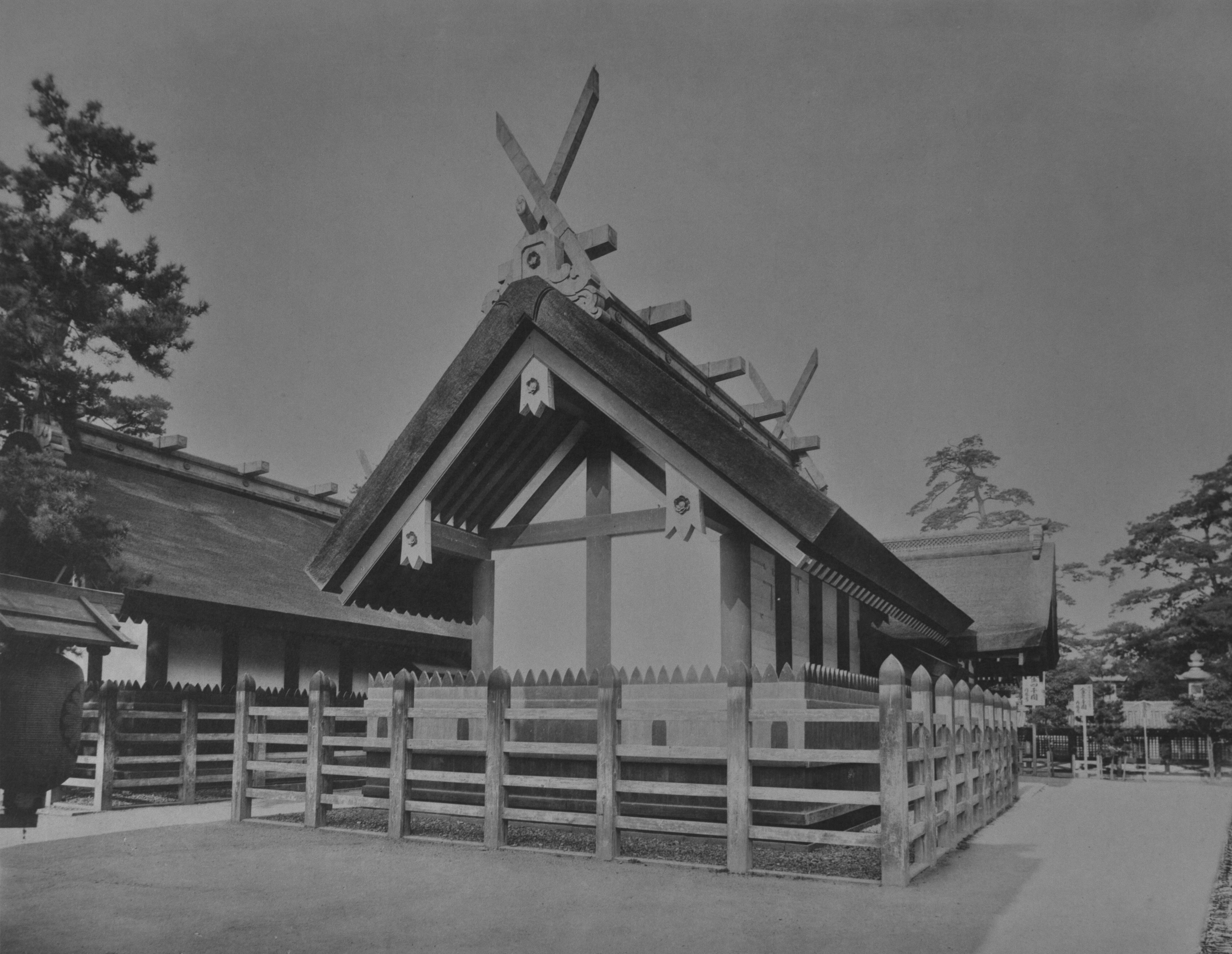 Sumiyoshi Taisha, Osaka, Japan